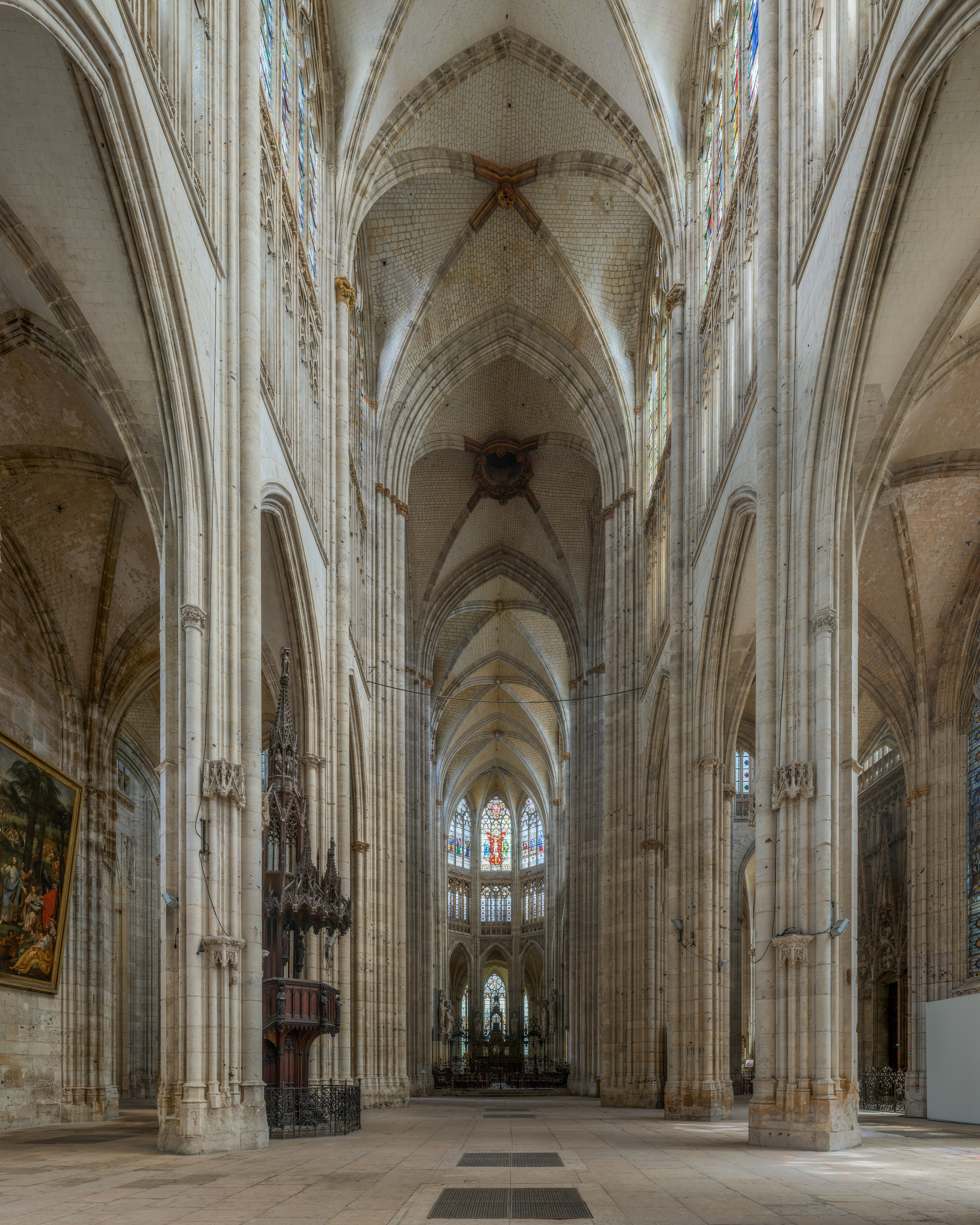 A panoramic interior view of the Nave of Saint-Ouen de Rouen.